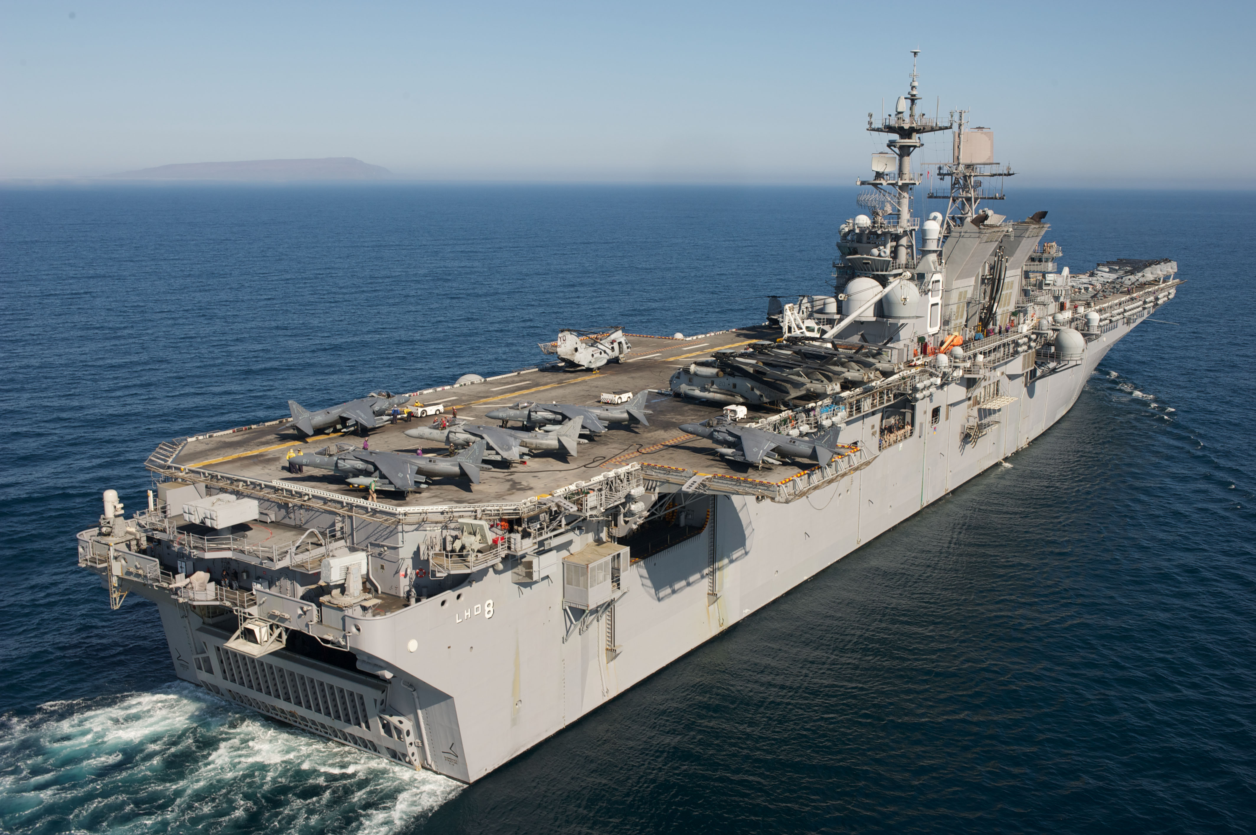 PACIFIC OCEAN (Sept. 7, 2011) The amphibious assault ship USS Makin Island (LHD 8) transits off the coast of Southern California conducting flight operations as part of Composite Training Unit Exercise. The exercise is designed to test capabilities and ensure overall readiness before deployment. (U.S. Navy photo by Chief Mass Communication Specialist John Lill/Released)